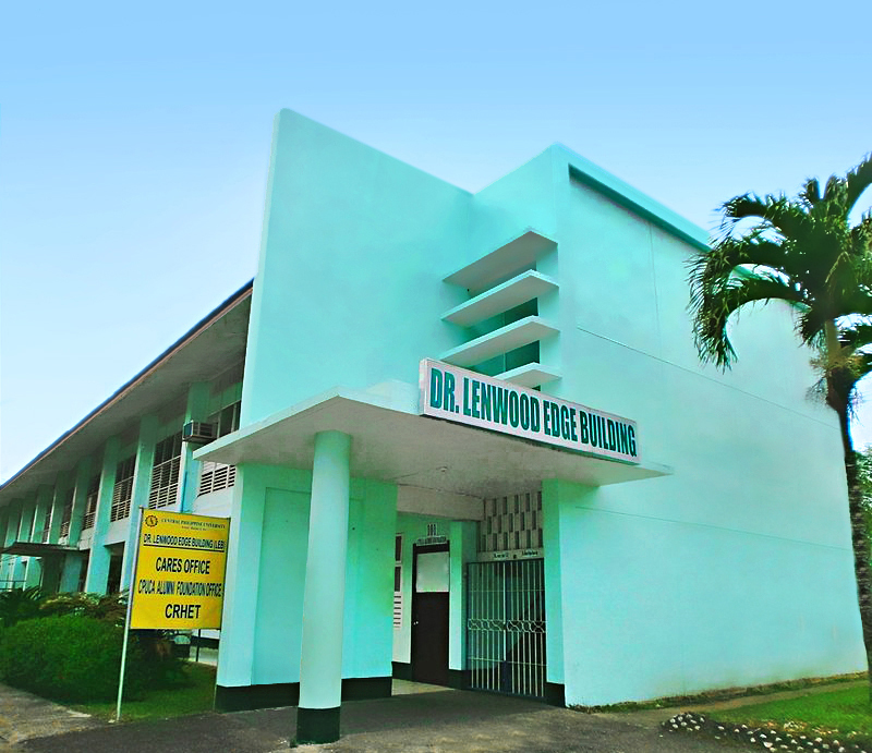 Dr. Lenwood Edge Building on the main campus of Central Philippine University